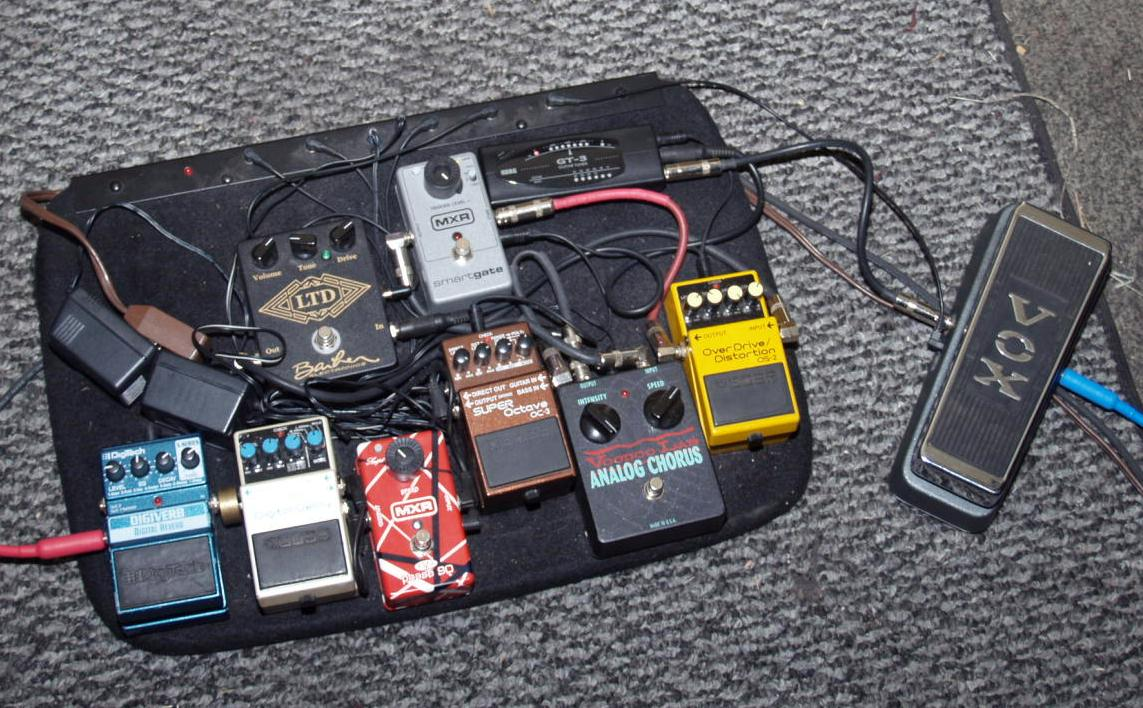 Flickr Tags: DA BUMP band equipment music live movers jay dover redsea dabump university city loop Christina Rutz.....PAPARUTZI.